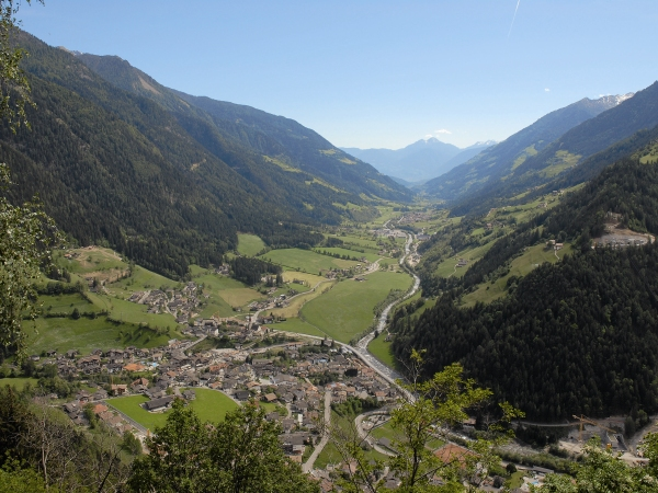 St. Leonhard im Passeiertal